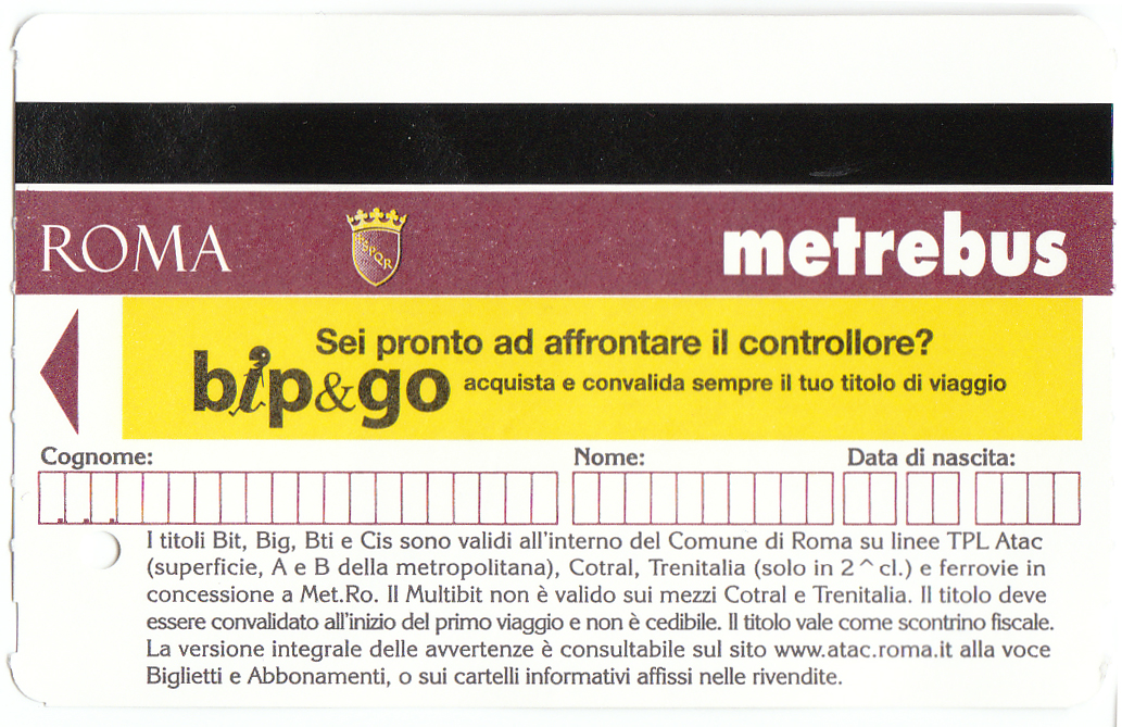 This is the original design for the metrebus card in Rome, which was introduced in 1999.